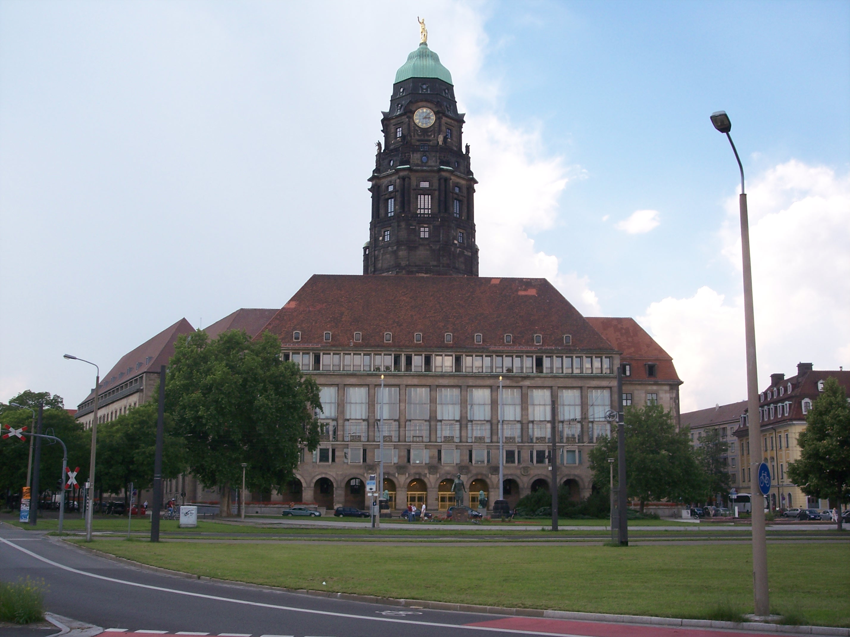 town hall in Dresden, Germany